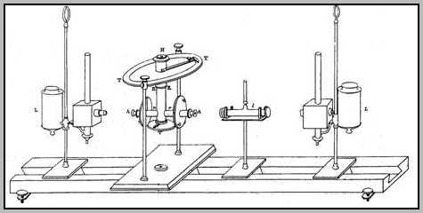 Light from the lamp at the right-hand side passes through an absorption cell, whereas the lamp at the left-hand side is a reference source. The photometer is adjusted so that the observed intensities from the two light sources are equal.